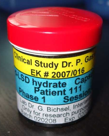 A bottle of LSD from a Swiss clinical trial for end-of-life anxiety in cancer patients, circa 2007, conducted by Dr. Peter Gasser, sponsored by the Multidisciplinary Association for Psychedelic Studies. The opaque bottle has a red cap and a yellow, cyan, and white label. The label says in part: Clinical Study, EK # 2007/016, d-LSD hydrate Capsule, Only for research purposes.